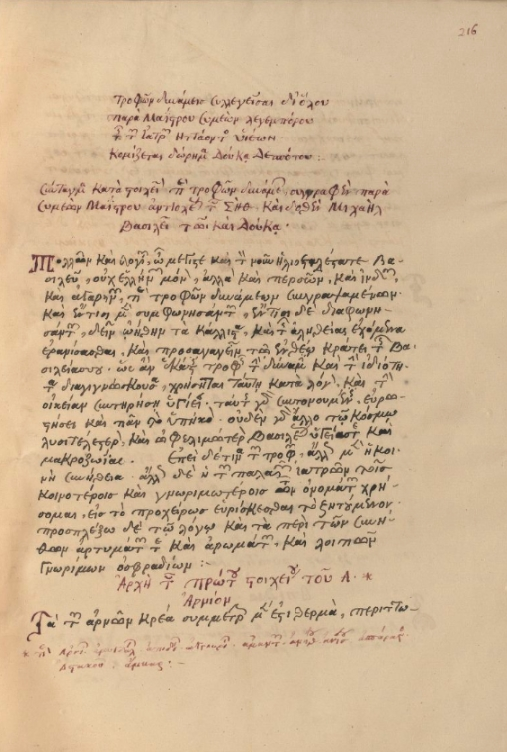 Simeon Seth, Alphabetical outline of diet, BNF_MS_suppl_grec_634, f. 216r: first page of text